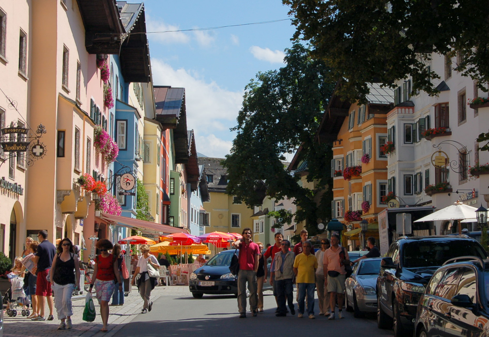 Kitzbühel, Tyrol - Vorderstadt